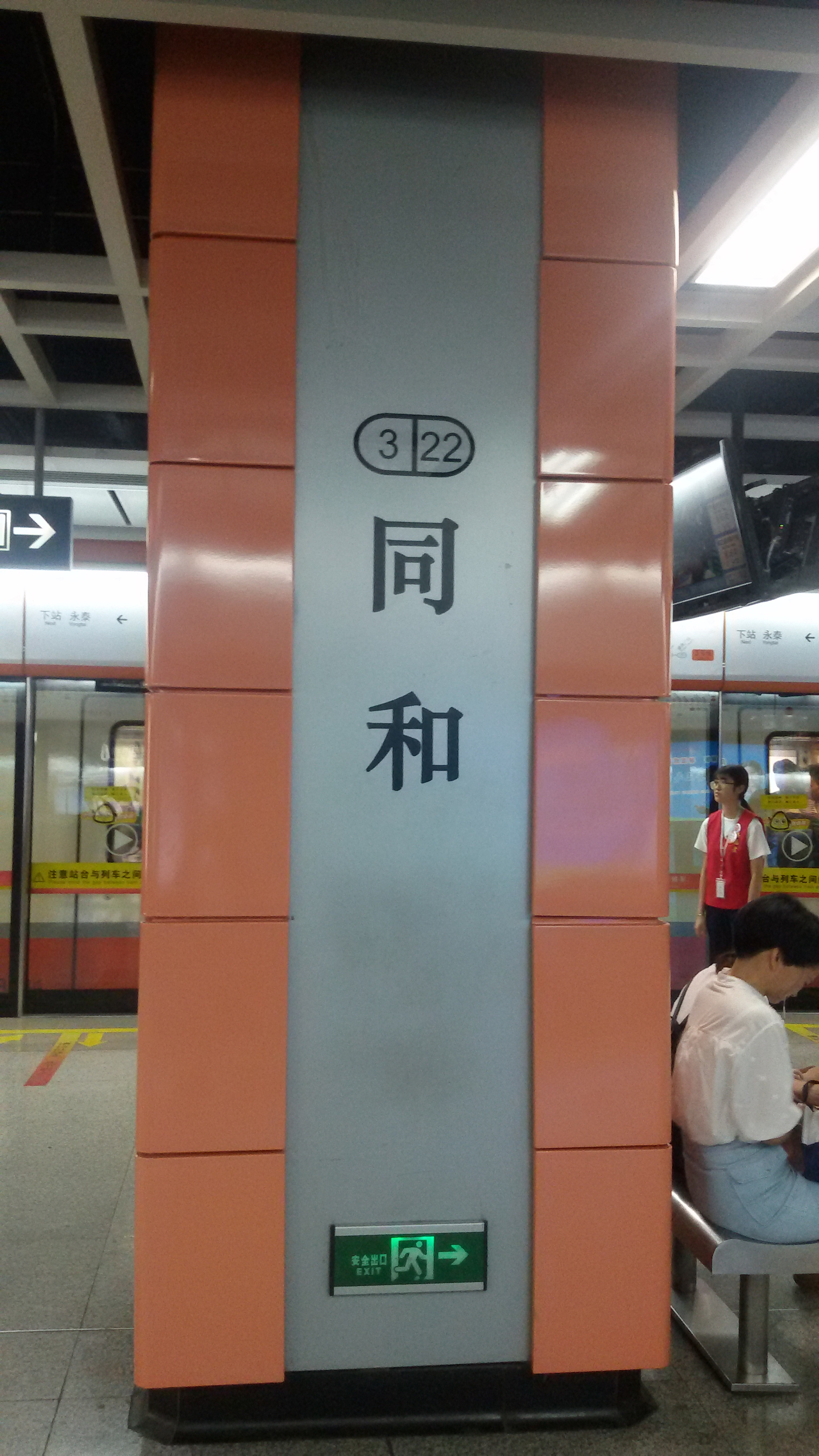 WORD on PILLAR for Tonghe Station in Guangzhou Metro